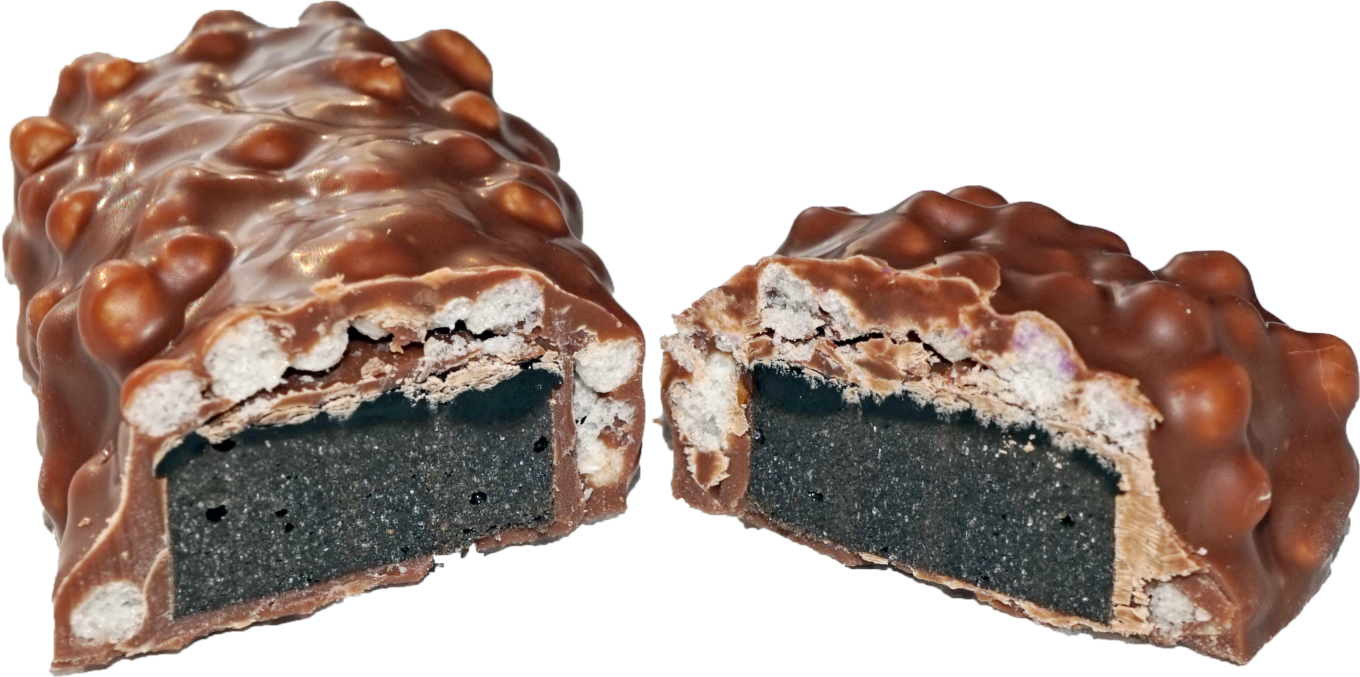 Tupla Double Layer liquorice chocolate bar.